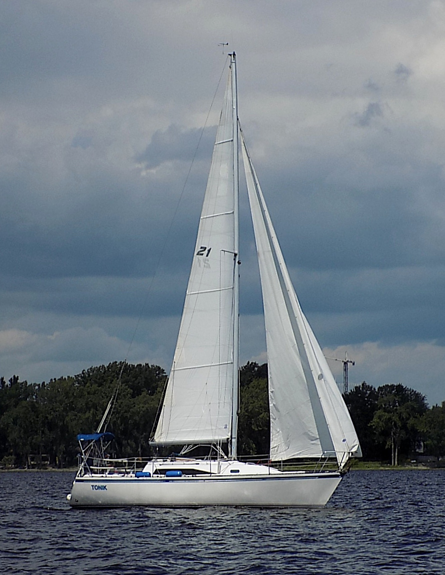 An Odyssey 30 sailboat named Tonik.